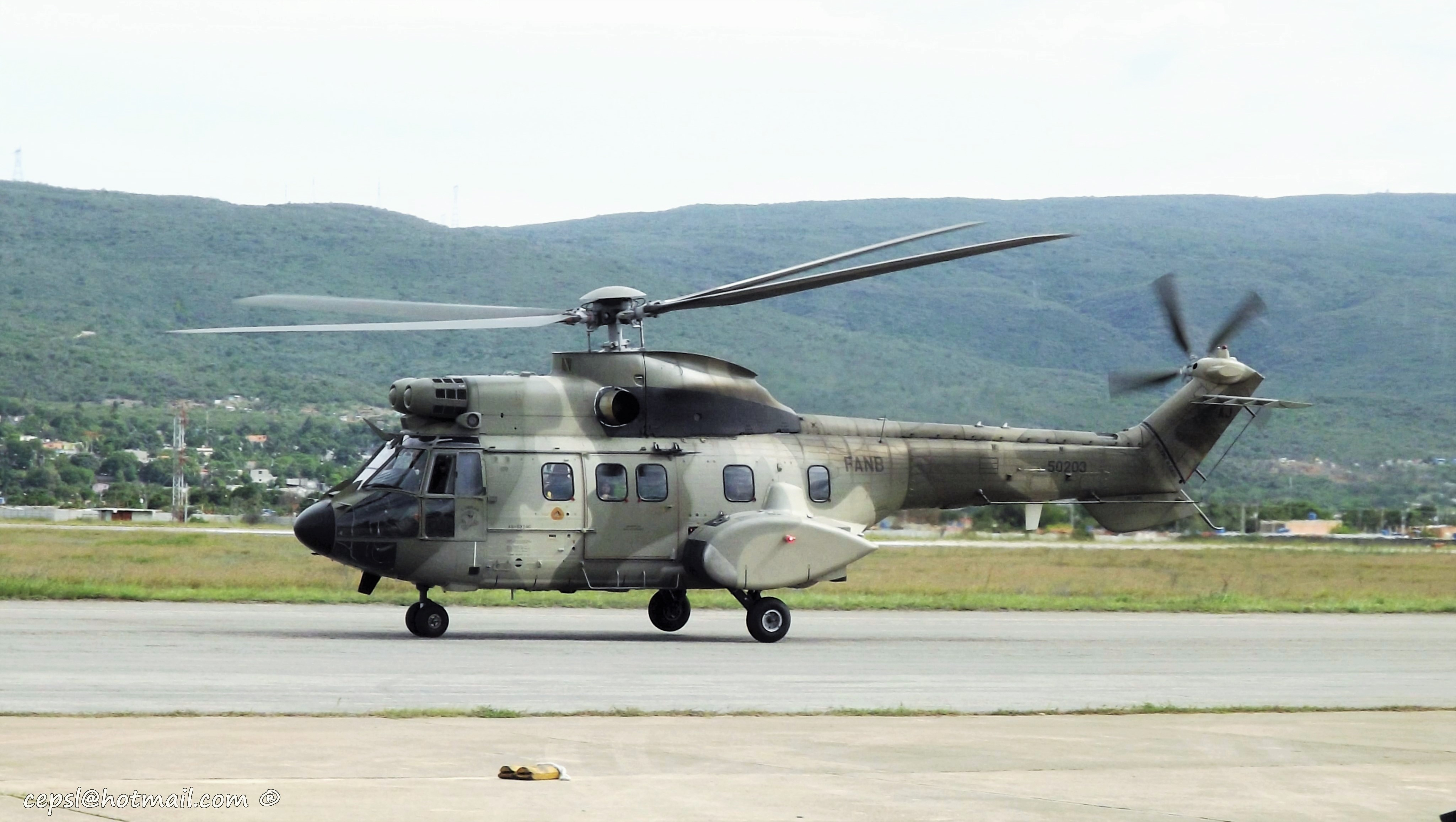 Eurocopter AS 532AC Cougar taking off from Tte. Vicente Landaeta Gil Air Base. Barquisimeto, Venezuela. (BALANDA)